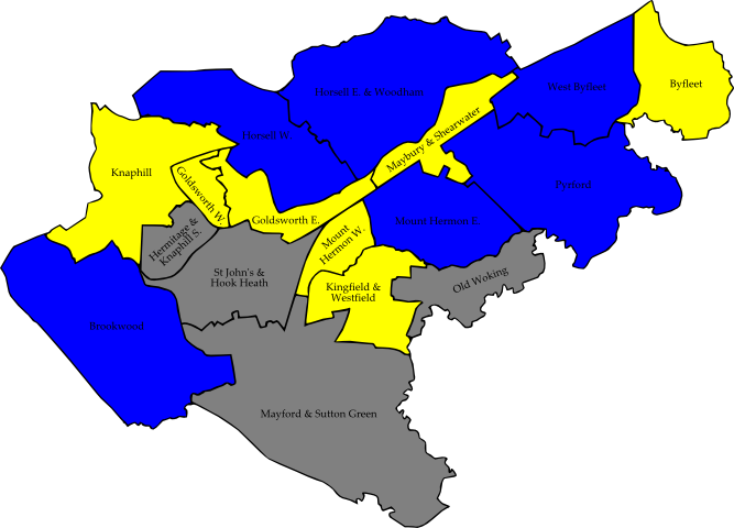 A map of the results of the 2008 Woking Council election. Colour legend by wards won: Liberal Democrats Conservative party Wards in grey were not contested in 2008.